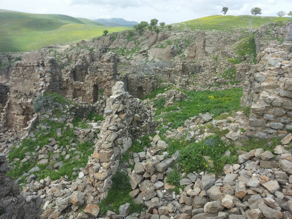 Srochk castil